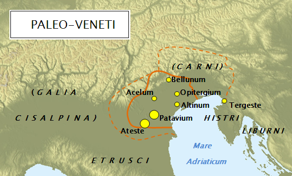 Map of Paleo-Veneti. Based on texts and maps in: Adams Douglas Q., Mallory J. P. (1997): Encyclopedia of Indo-European culture. USA, Fitzroy Dearborn Publishers. Page 183; Božič et al (1998). Zakladi tisočletij: Zgodovina Slovenije od neandertalcev do Slovanov. Ljubljana, Modrijan. Page 103, 150, 179; Makarovič Jan. (1998). Od Črne boginje do Sina Božjega. Ljubljana/Pisa, Studi Slavi & FDV. Page 36; Wilkes John (1992): The Illyrians. USA, Blackwell Publishers. Page 183-184.